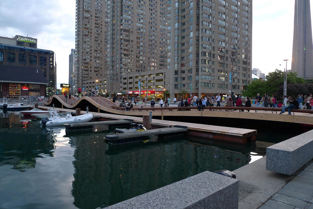 One of the new wave decks being installed along Toronto's waterfront, this one at Queens Quay and Simcoe Street.